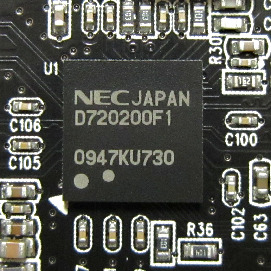 NEC μPD720200. USB 3.0 host controller.